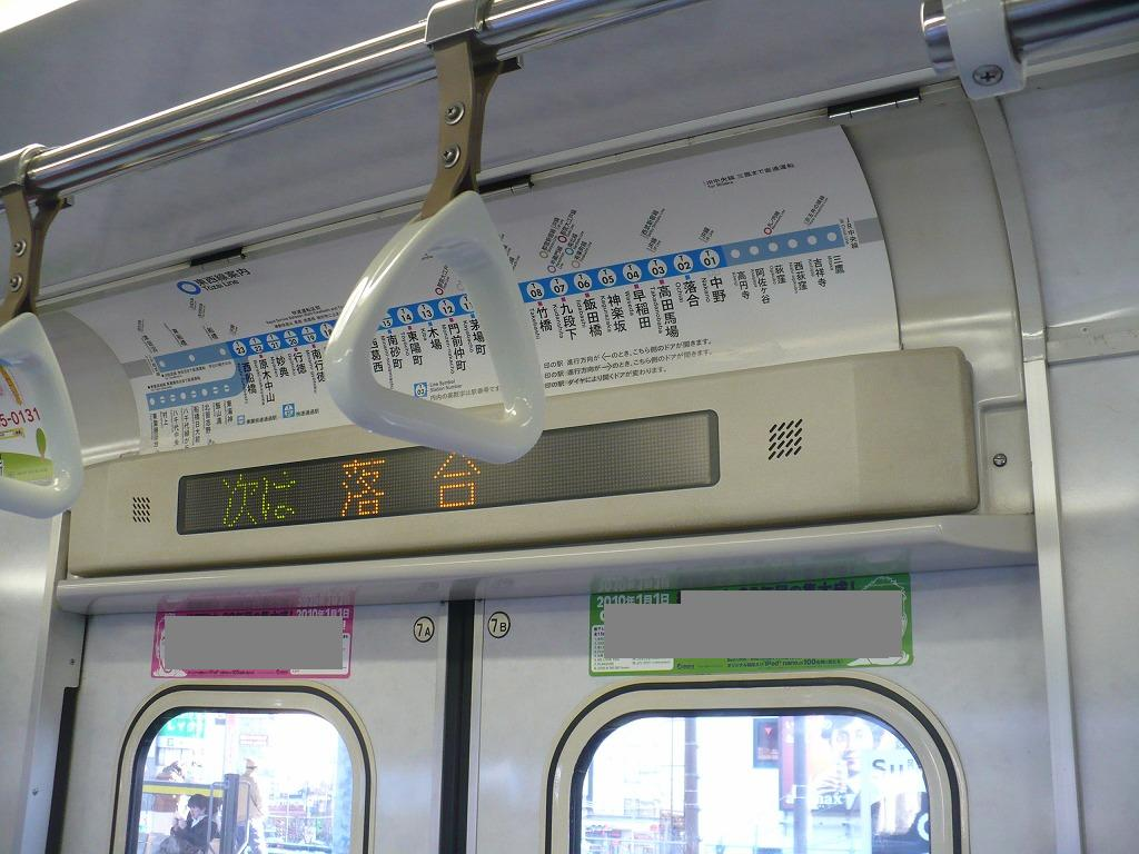 Interior view of Tokyo Metro Tozai Line 07 series EMU showing LED passenger information display above doorway